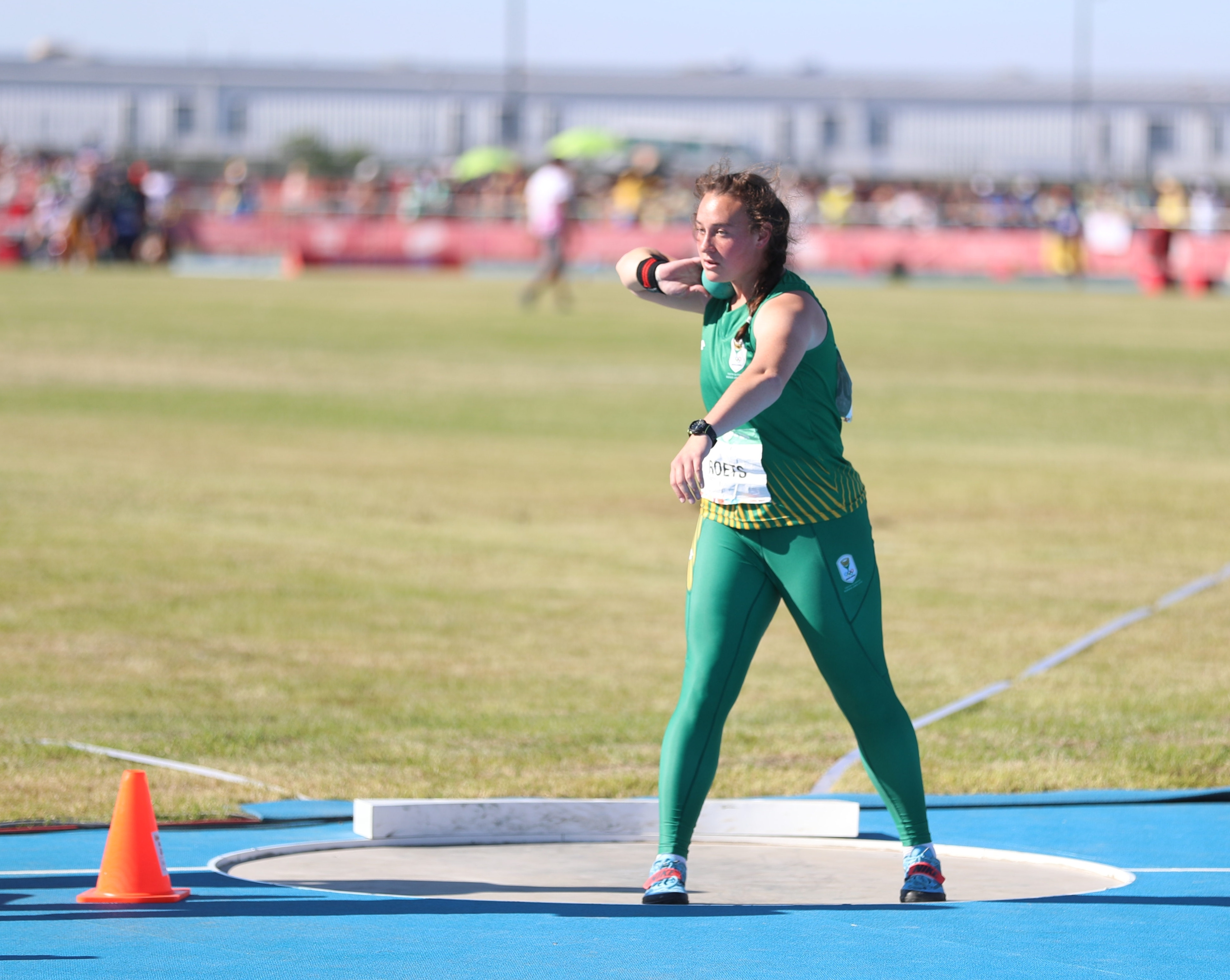 Athletics, Girls' Shot put Stage 2, at the 2018 Summer Youth Olympics in Buenos Aires on 15 October 2018.